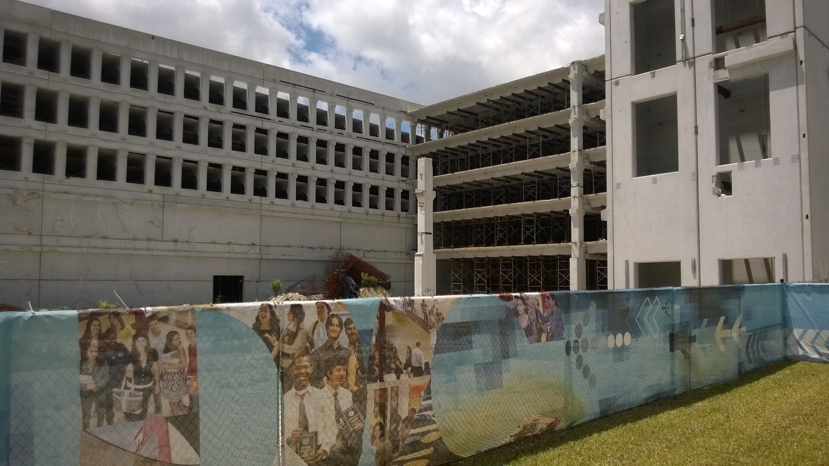 Site of a partially collapsed Multi-storey car park